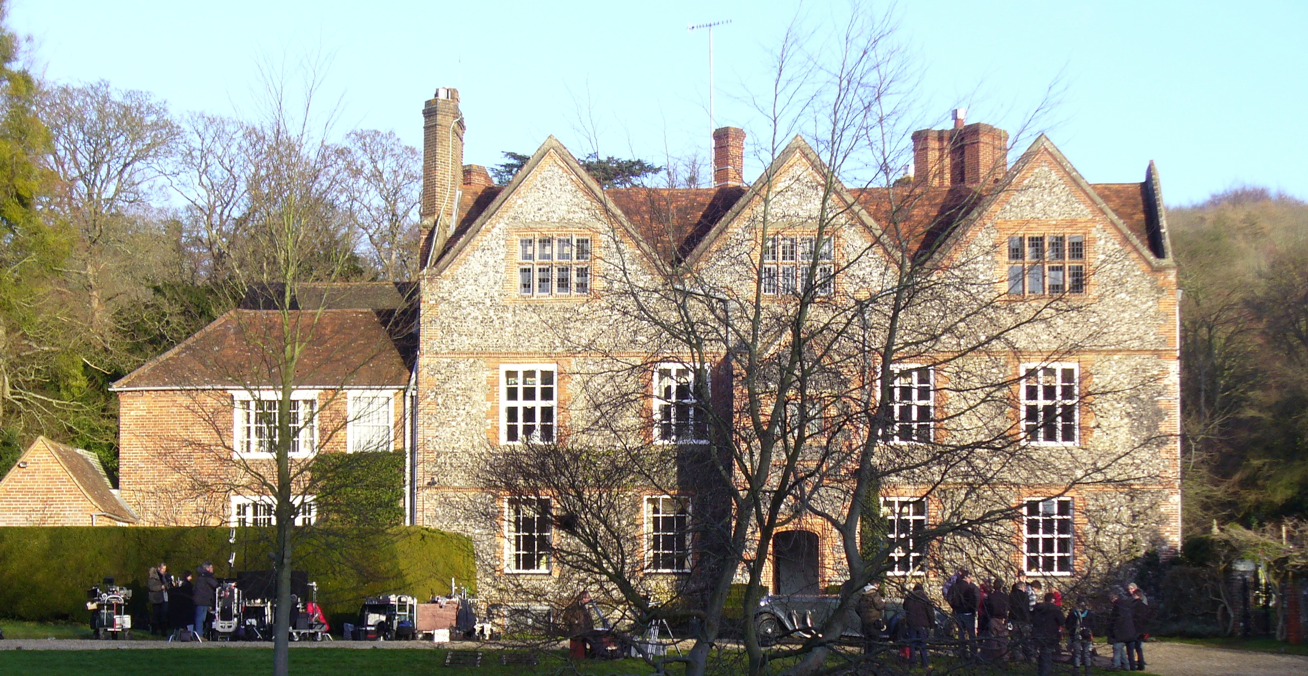 Manor House, Hambleden Cropped by uploader from File:Hambleden Manor.jpg